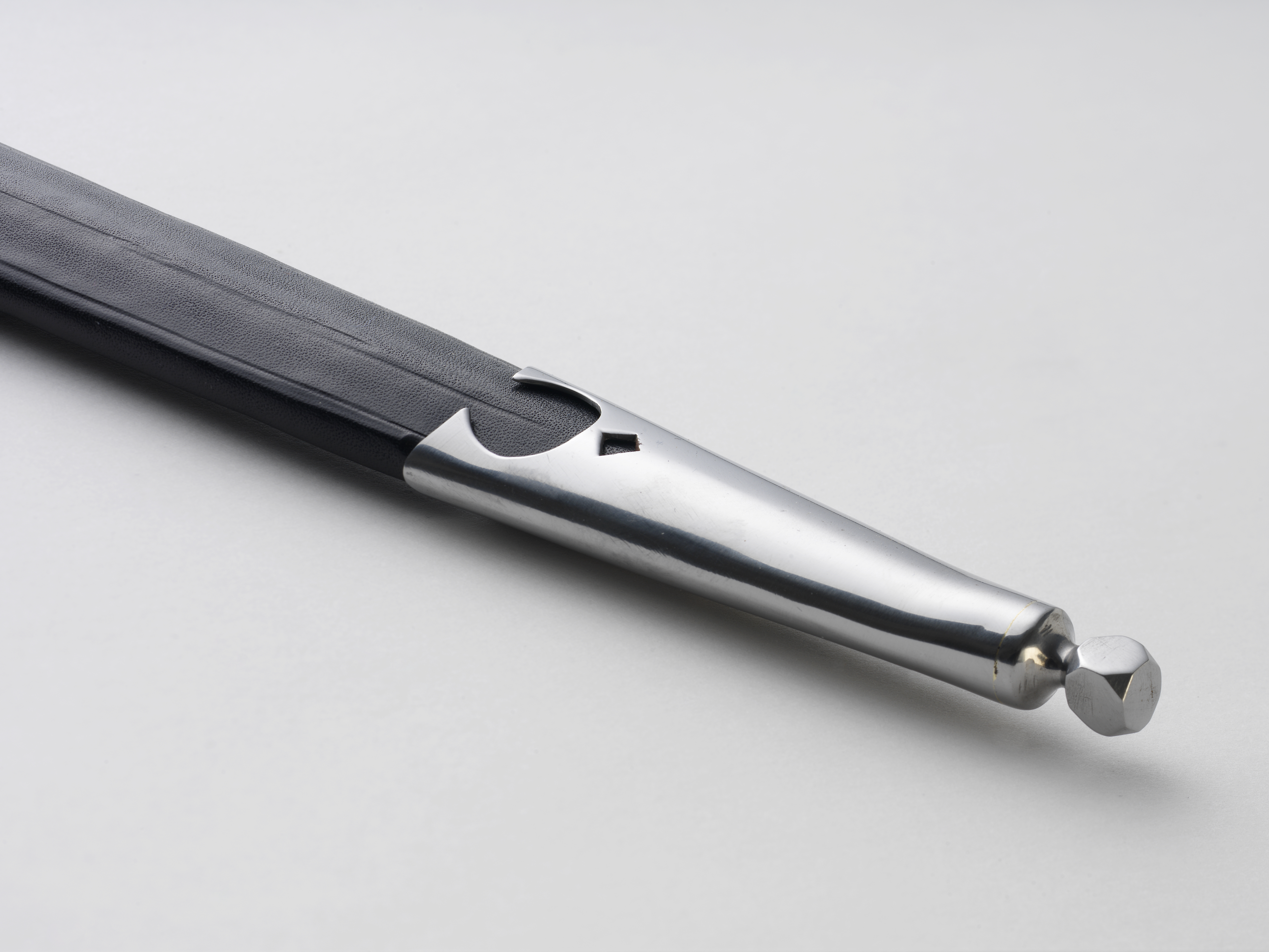 A period scabbard for the Museum Line Ljubljana made by